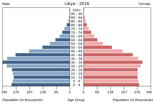 The population pyramid of Libya illustrates the age and sex structure of population and may provide insights about political and social stability, as well as economic development. The population is distributed along the horizontal axis, with males shown on the left and females on the right. The male and female populations are broken down into 5-year age groups represented as horizontal bars along the vertical axis, with the youngest age groups at the bottom and the oldest at the top. The shape of the population pyramid gradually evolves over time based on fertility, mortality, and international migration trends.